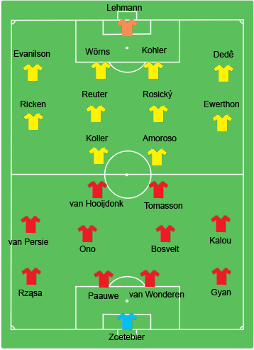 Formations used in the 2002 UEFA Cup Final